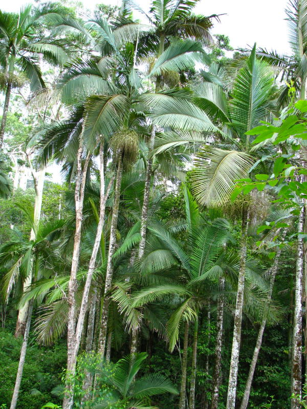 Archontophoenix maxima along a creek in moist eucalypt forest in the Herberton Range, Atherton Tableland, north Queensland.